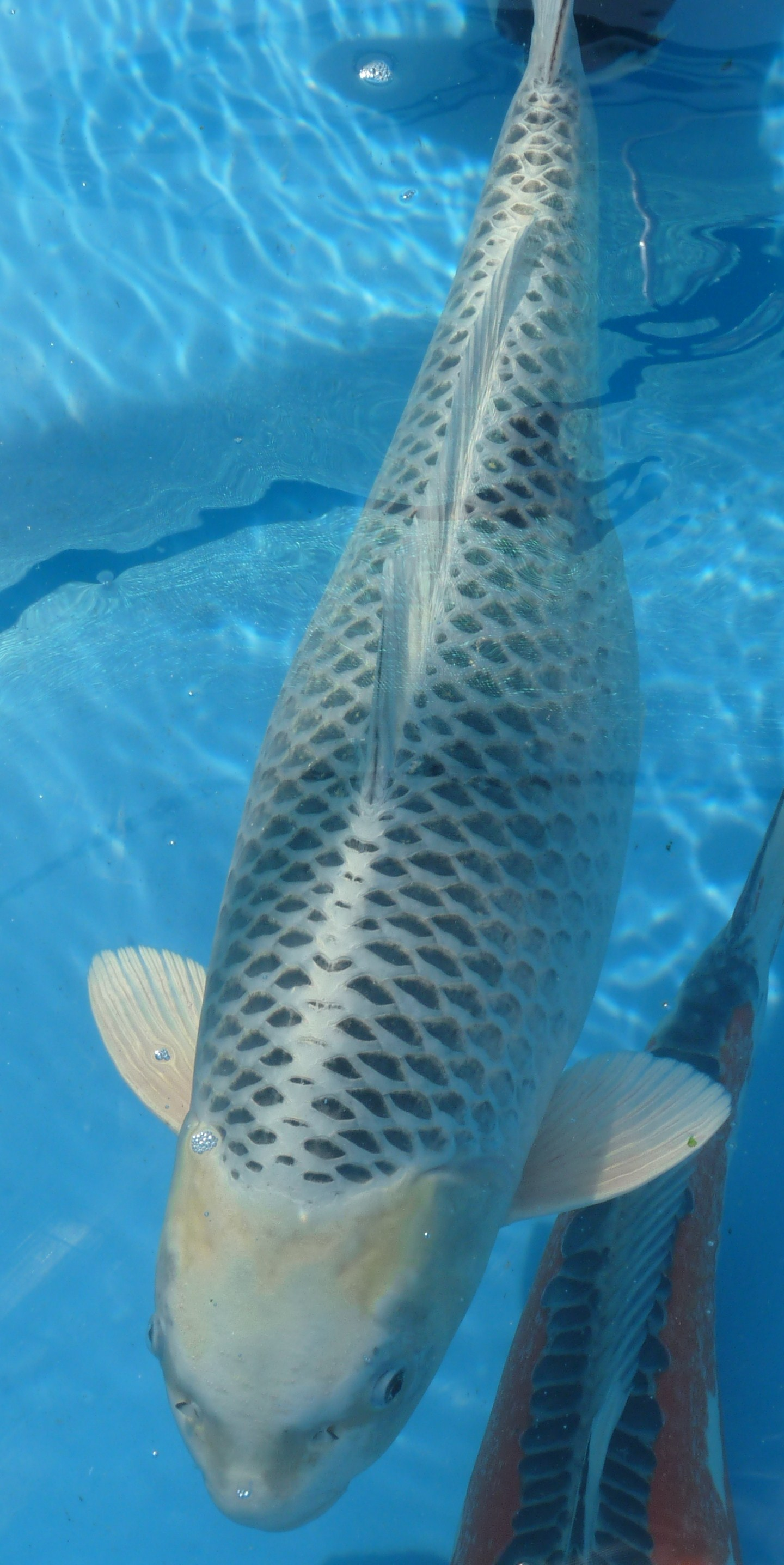 Gin Matsuba (Koi)